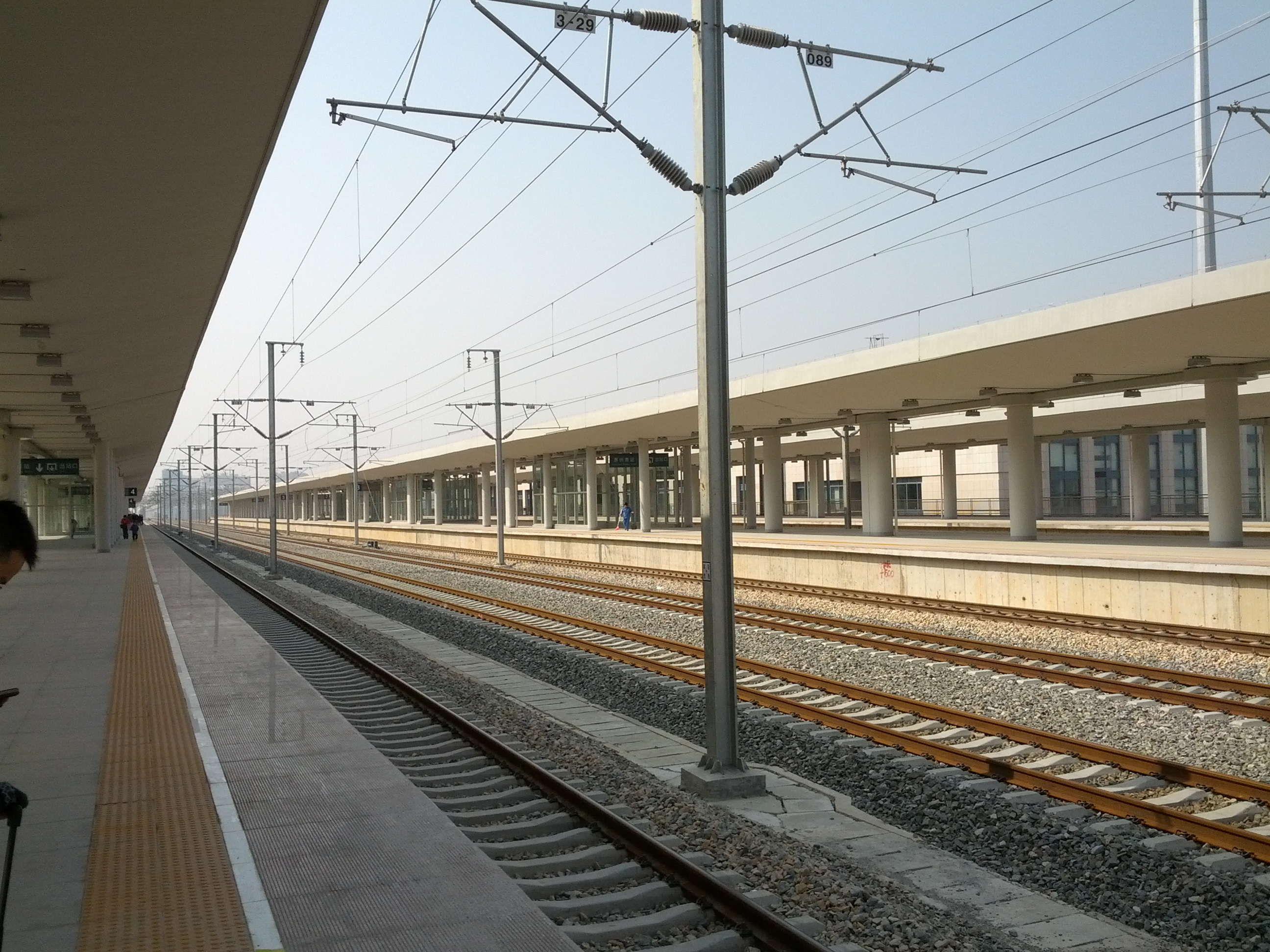 Platform of Huizhounan Railway Station中文（中国大陆）: 惠州南站站台